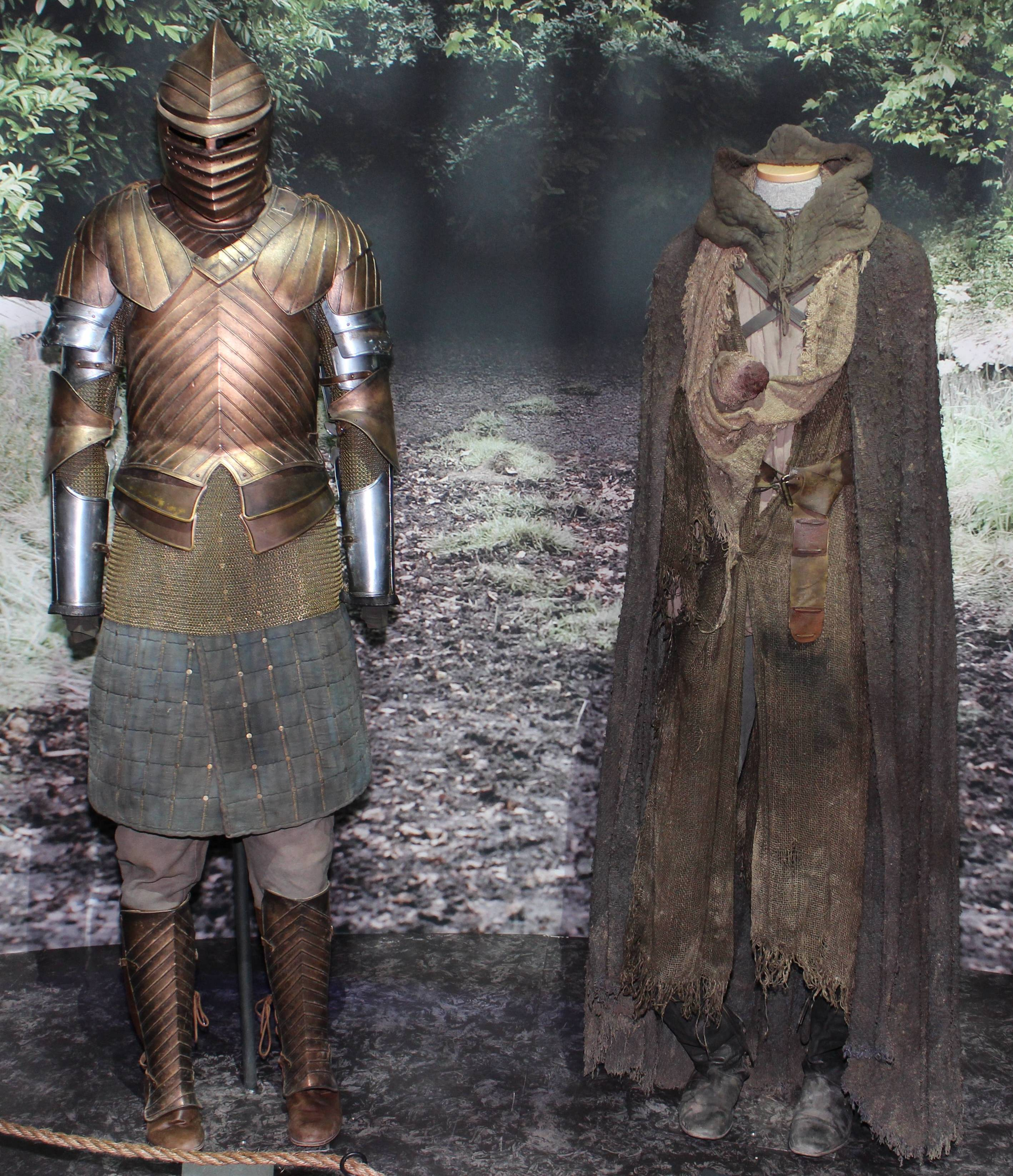 Costumes worn by the characters Brienne of Tarth and Jaime Lannister in the TV series Game of Thrones, exhibited by HBO in Oslo in 2014.